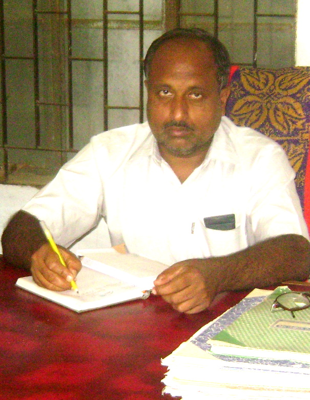 Honorable Head Master